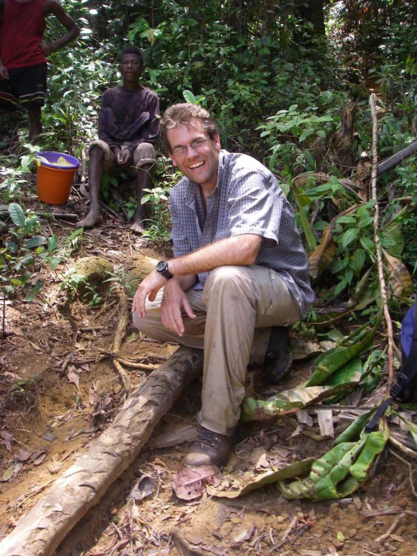 Herpetologist Miguel Vences in the field, Madagascar